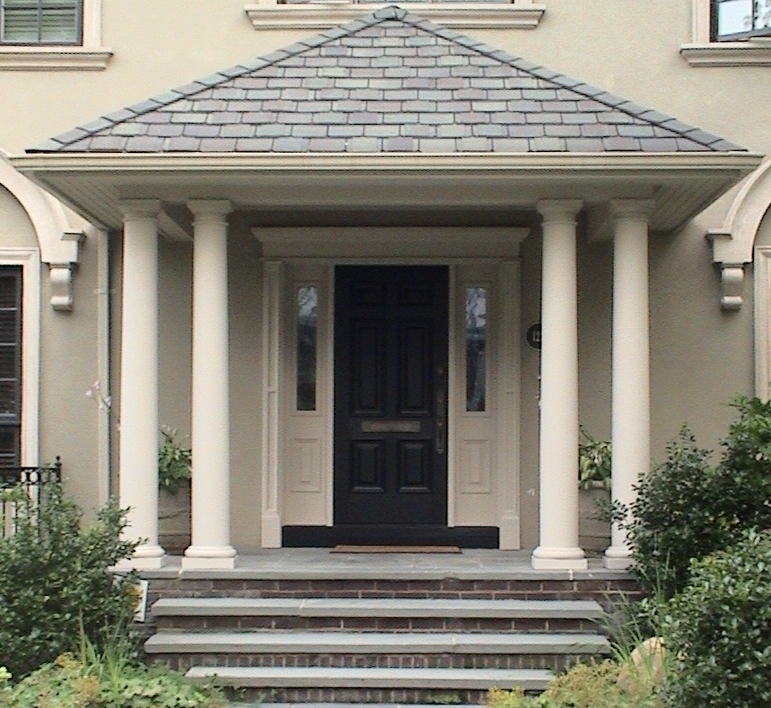 The frontdoor of the backdoor in Kew Gardens